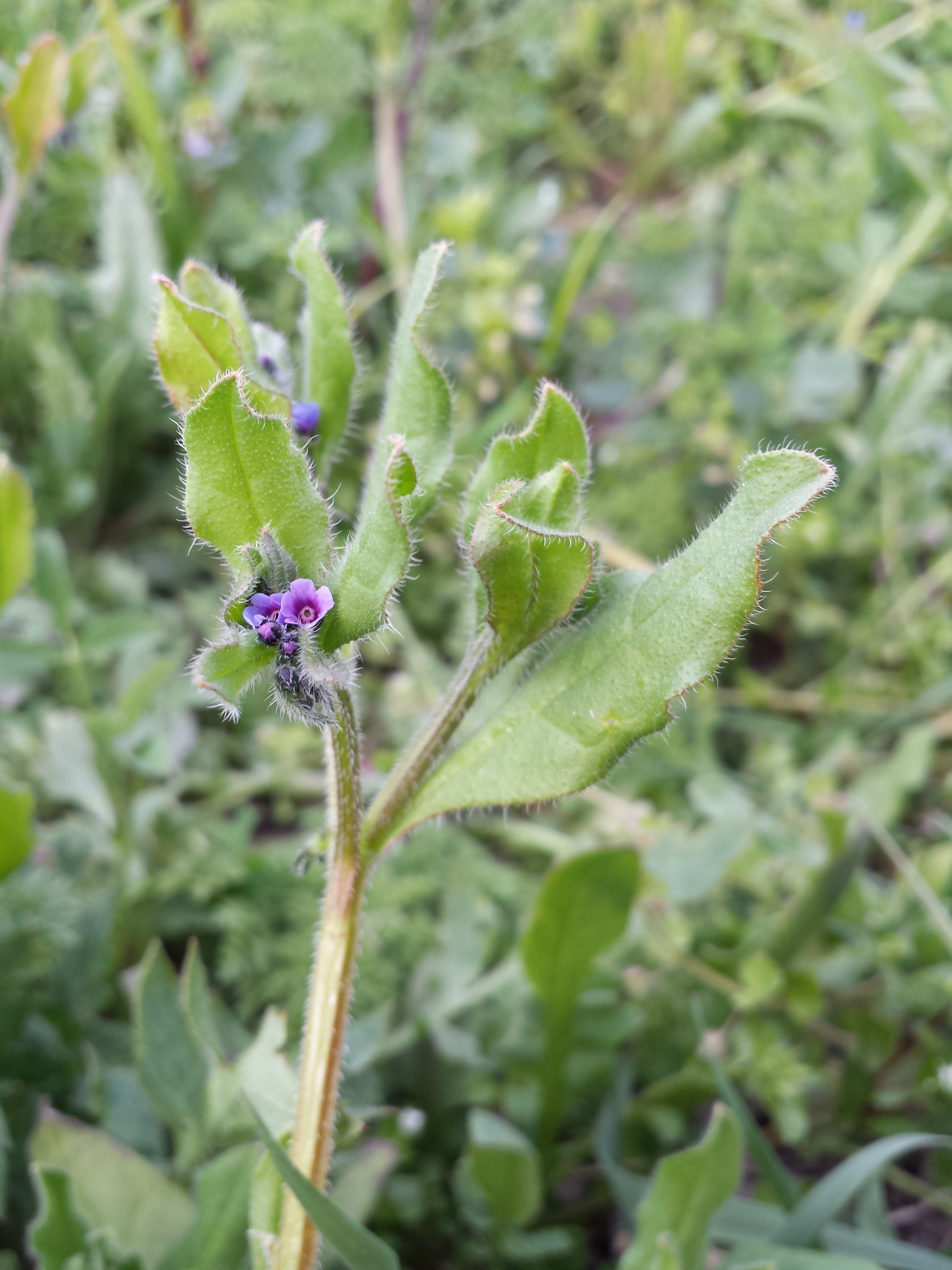 Habitus Taxon: Asperugo procumbens (sensu Fischer et al. EfÖLS 2008) Location: Donaufeld, Vienna-Floridsdorf - ca. 170 m a.s.l. Habitat: grain field